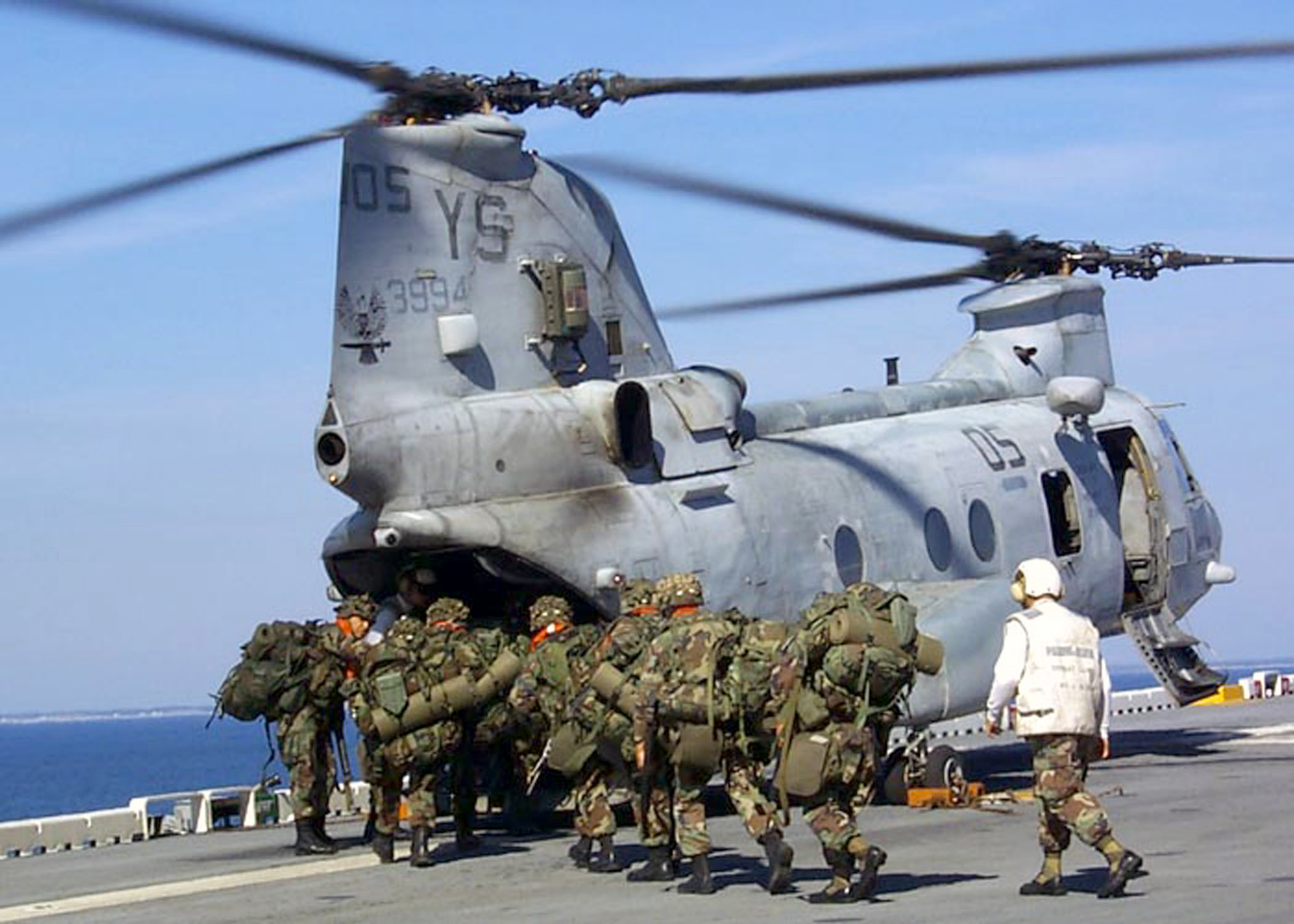 At sea aboard USS Saipan (LHA 2) Oct. 20, 2002 -- Members of the 22nd Marine Expeditionary Unit (MEU) board a CH-46 “Sea Knight” helicopter during a beach-landing Type Commander Amphibious Training (TCAT) exercises off the coast of North Carolina. The week long TCAT permits the Amphibious Ready Group (ARG) the opportunity to work together as a cohesive unit to fine tune their basic ship-handling skills, well-deck and flight-deck operations, and other integral shipboard activities and drills. In addition, TCAT allows the sailors aboard these ships the opportunity to work closely with their Marine counterparts. U.S. Navy photo by Photographer's Mate Airman Kyle T. Voigt. (RELEASED)